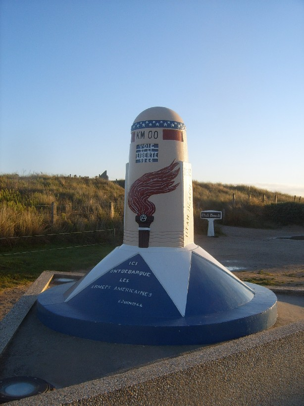 km 00 Liberty Road stone at Utah Beach, early morning